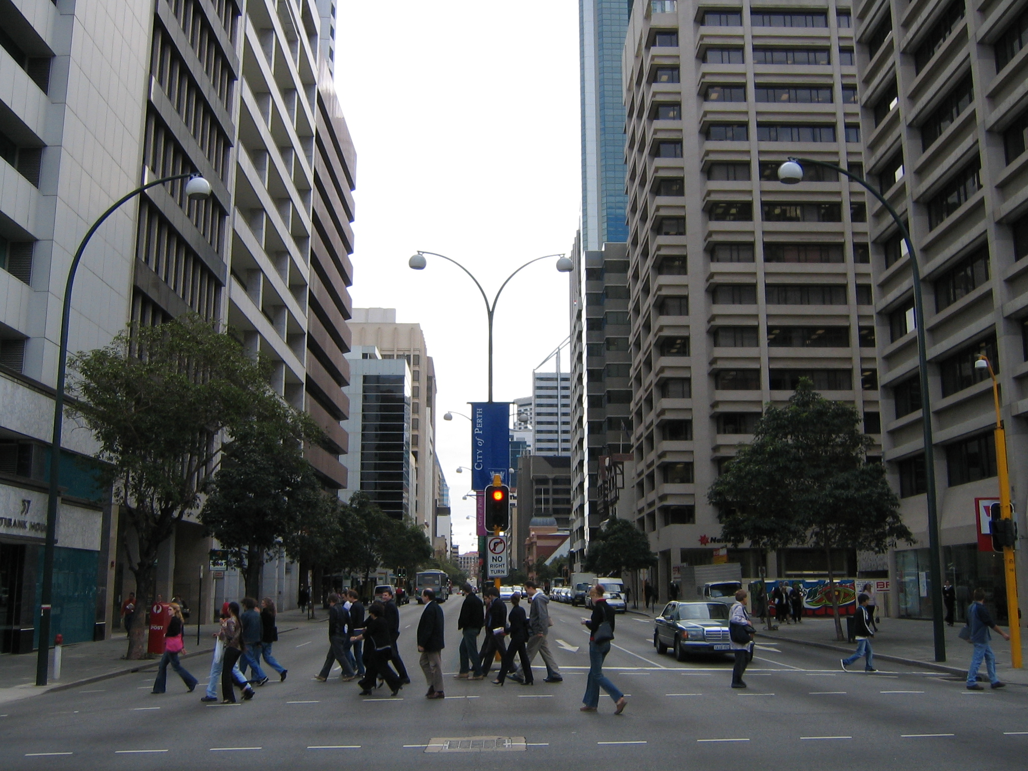 St Georges Terrace, Perth, Western Australia.